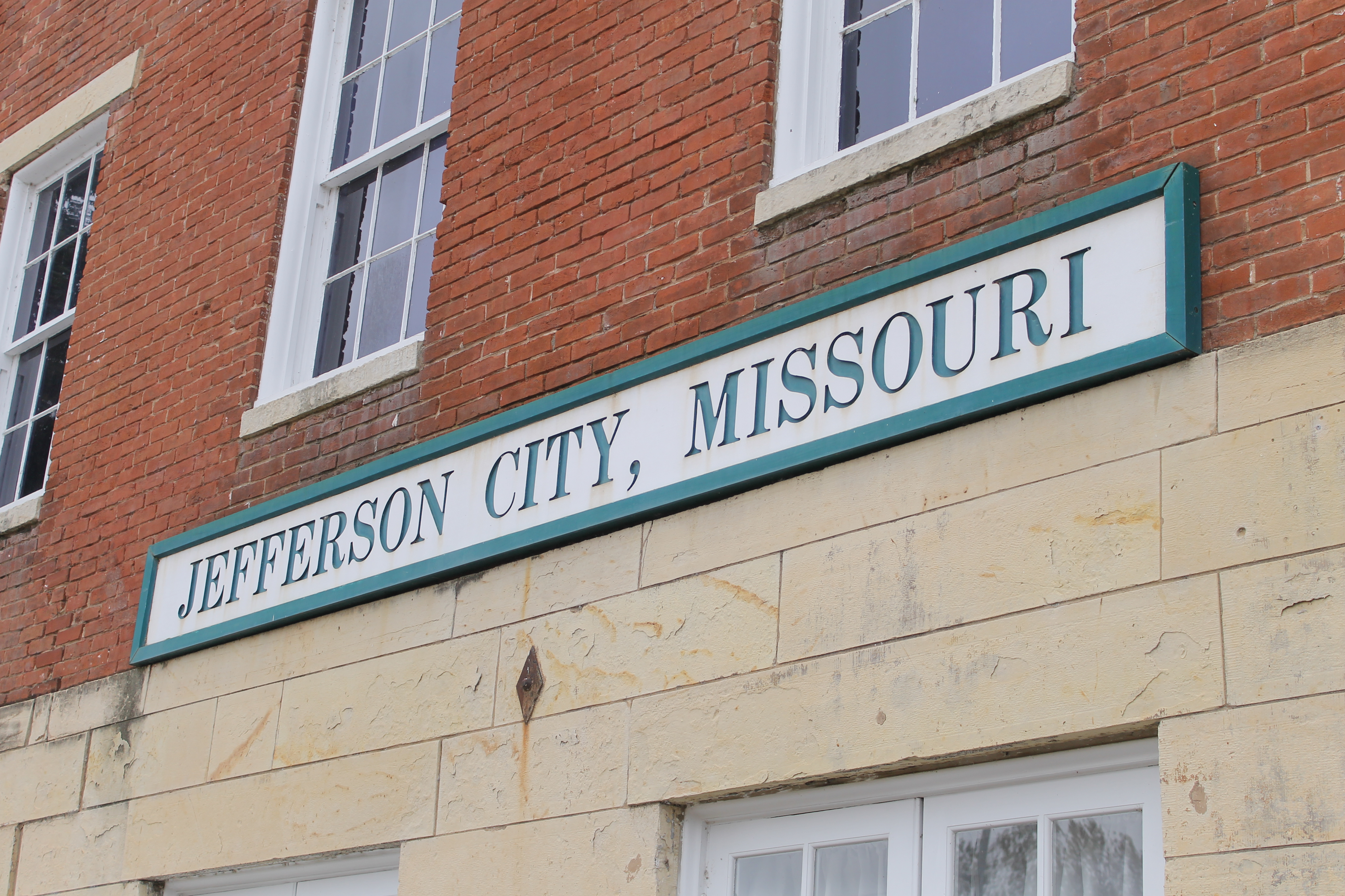 This sign occurs at the Amtrak station in downtown Jefferson City, Missouri. The station is housed in the old Union Hotel.